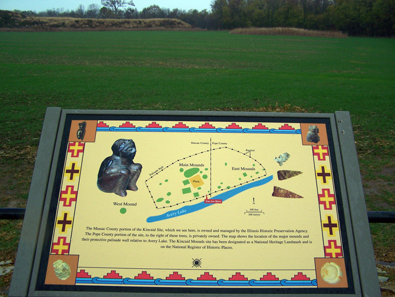 A photo of the Kincaid Mounds State Historic Site, a Mississippian culture mound site in southern Illinois, USA.